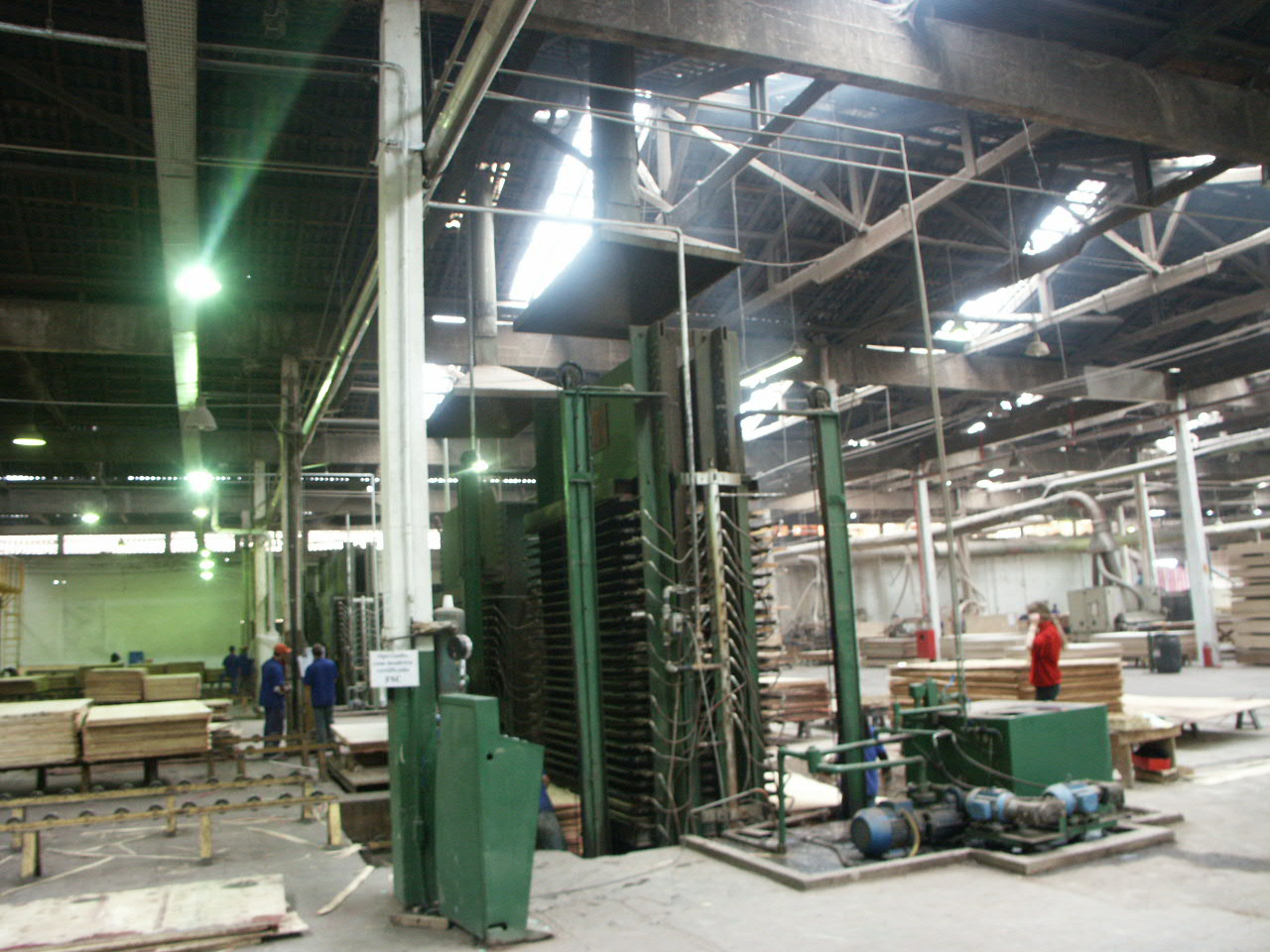 hot press for plywood production